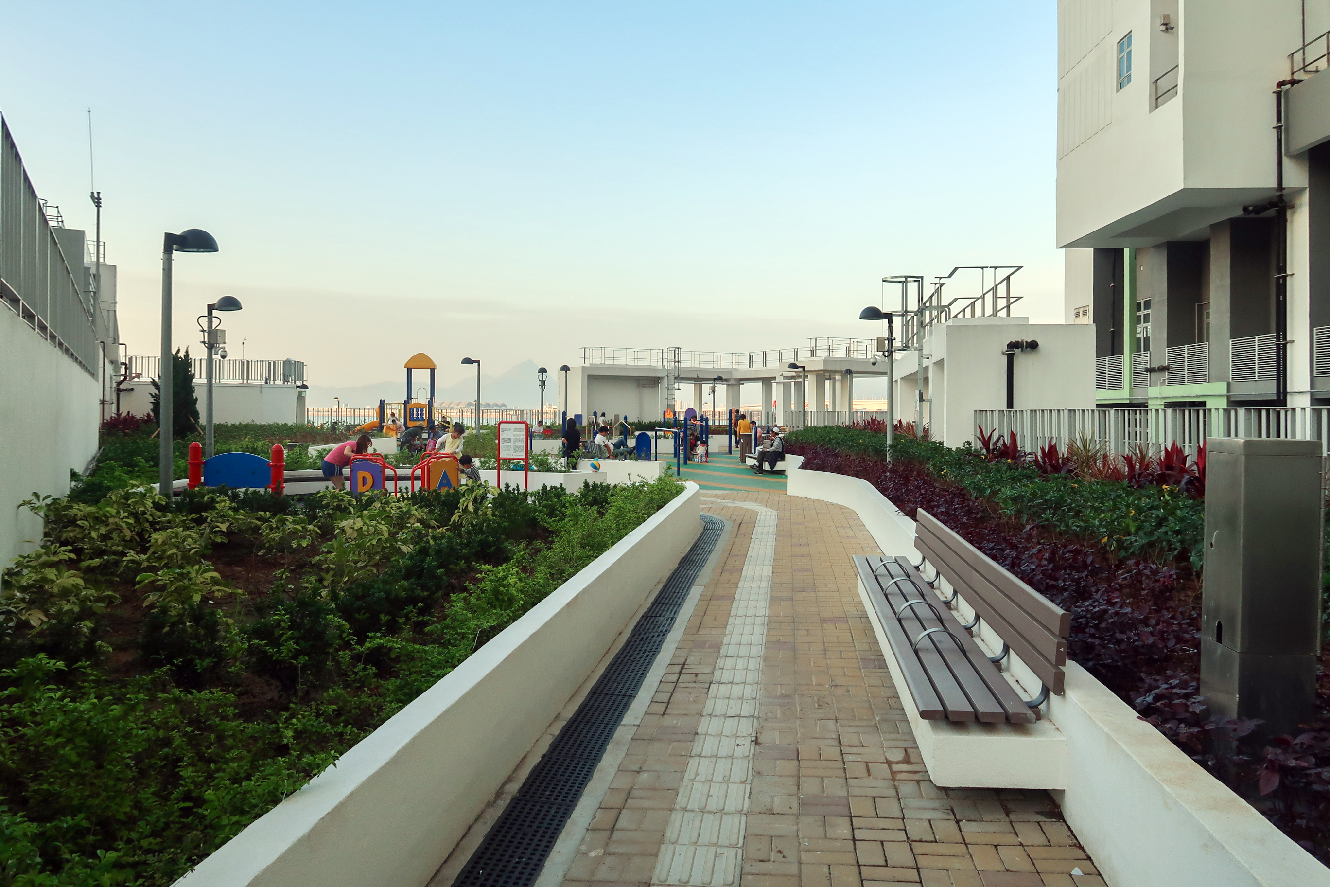 Ying Tung Estate Level 1 podium playground